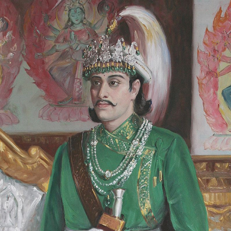 Portrait of King Rajendra Bikram Shah Deva of Nepal in National Museum of Nepal, Chauni